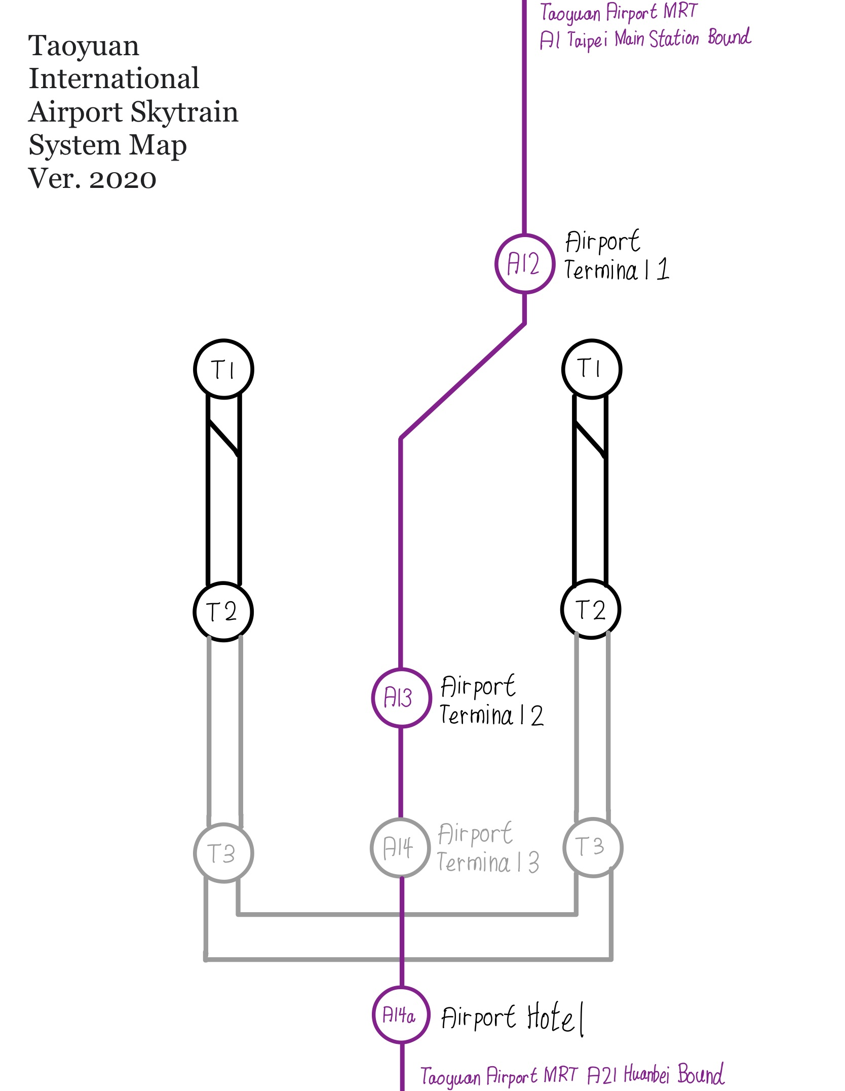 Taoyuan International Airport Skytrain Future System Map Ver. 2020